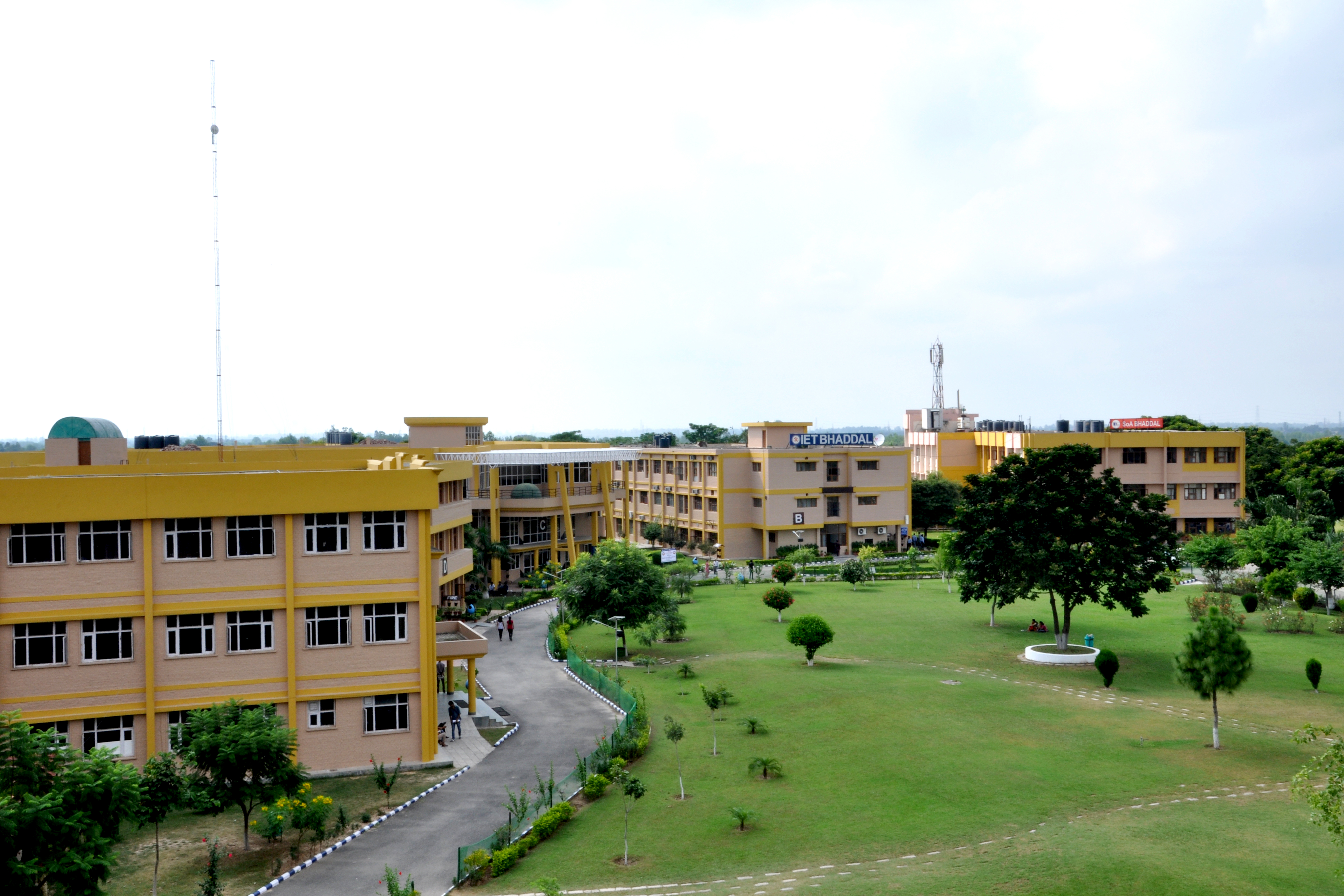 A view of IET Bhaddal Technical Campus